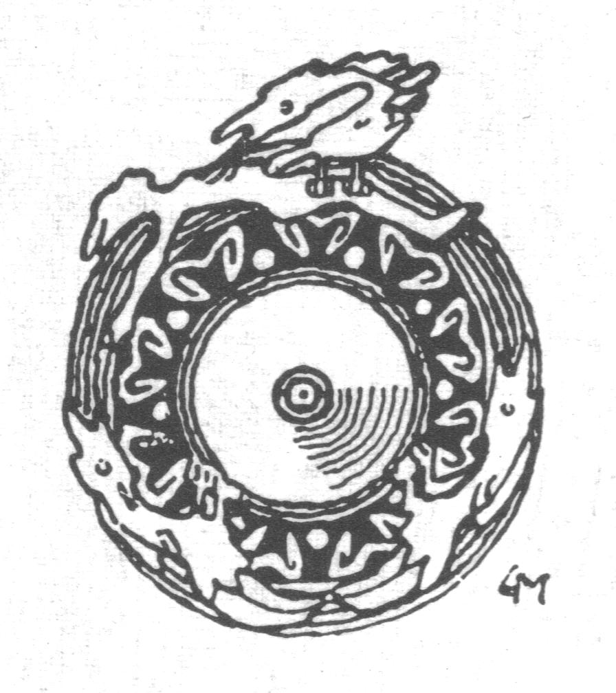 Gerhard Munthe: Illustration for Ynglingesaga. Snorre 1899-edition. 18